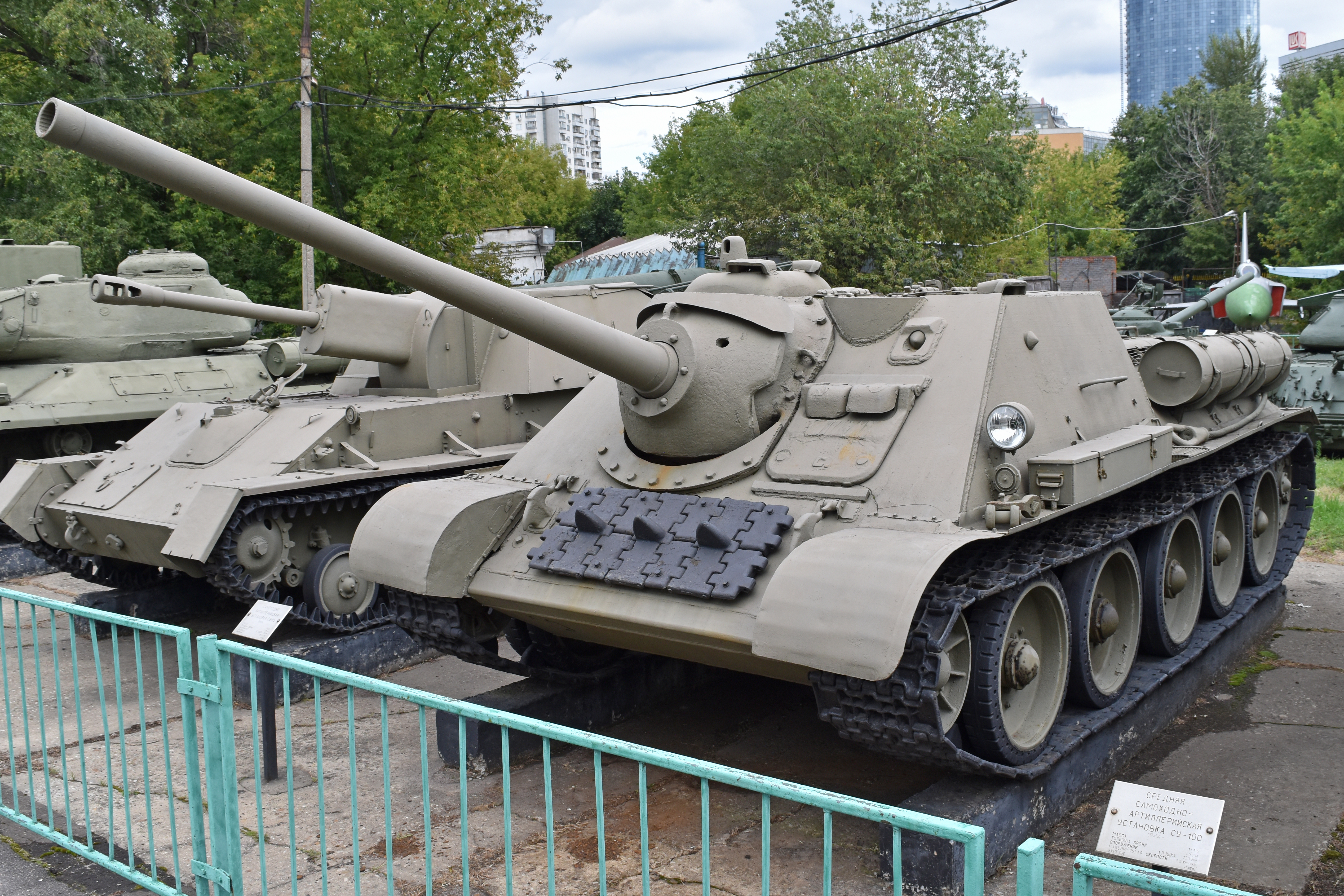 Soviet WW2 era Tank Destroyer Designer:- Lew S. Trojanow Built:- 1943 to 1944 Total Production:- 2,050 Main Armament:- 85mm D-5T high-velocity Anti tank gun The SU-85 was built on a T-34/76 chassis and was a modification of the SU-122. It entered service in August 1943 and although soon replaced by the SU-100 in frontline use, it remained in Soviet use until immediately after WW2. On display at the Central Armed Forces Museum, Moscow, Russia. 26th August 2017